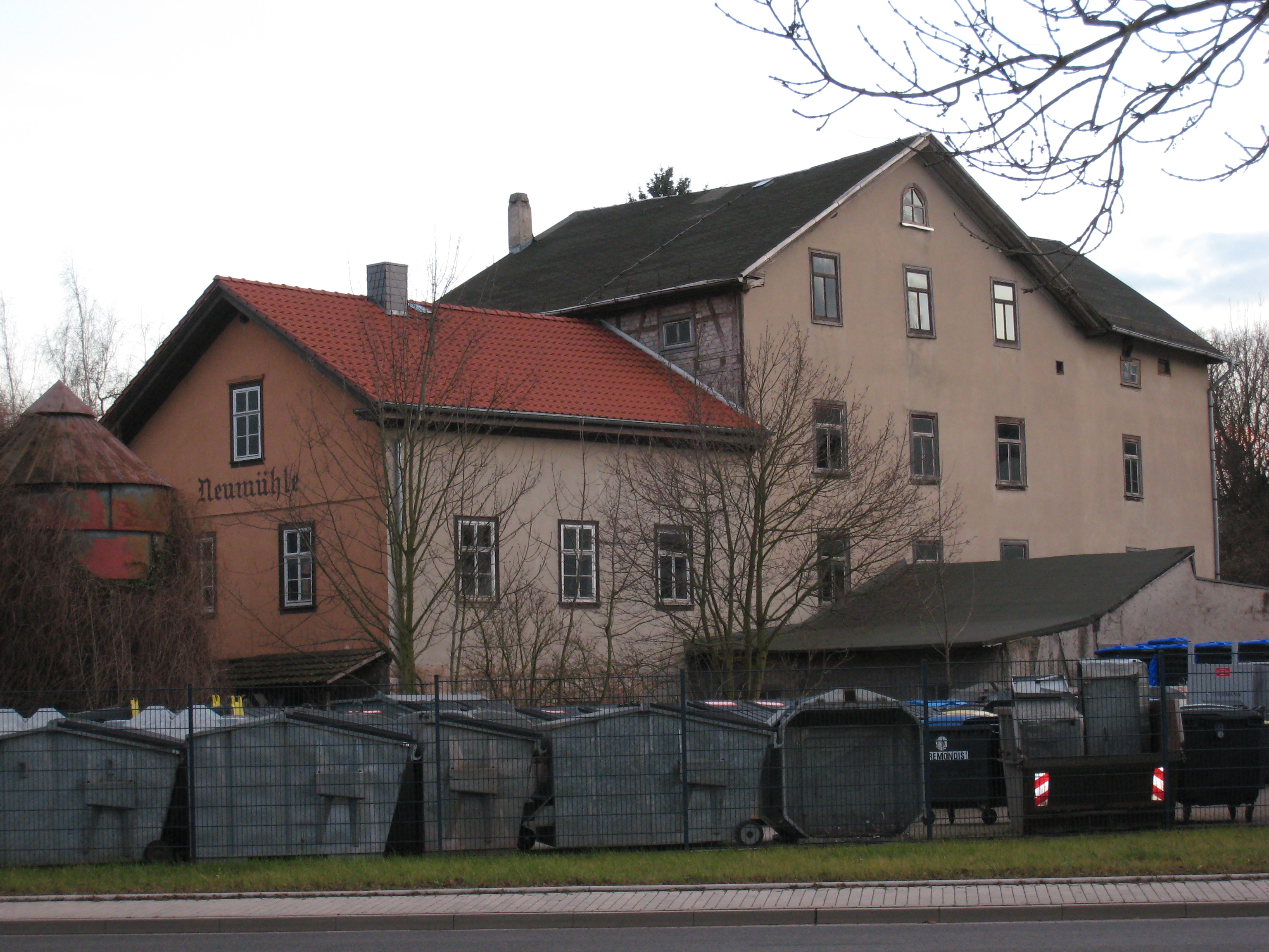 Mill Neumühle in Arnstadt